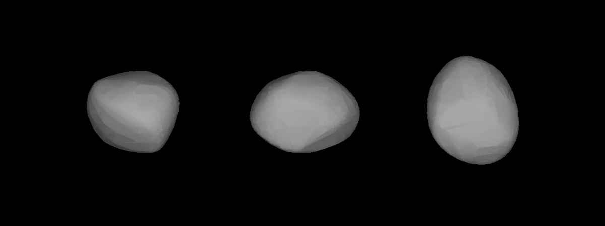 A three-dimensional model of 306 Unitas that was computed using light curve inversion techniques.